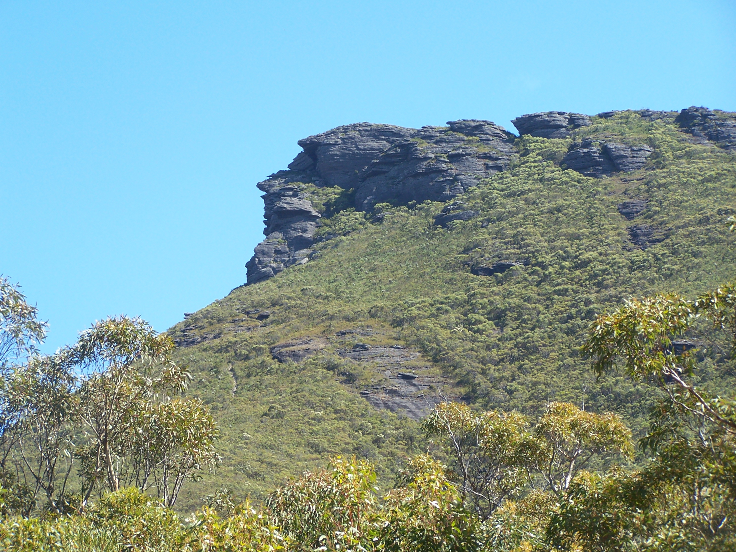 Image taken in the Stirling Range